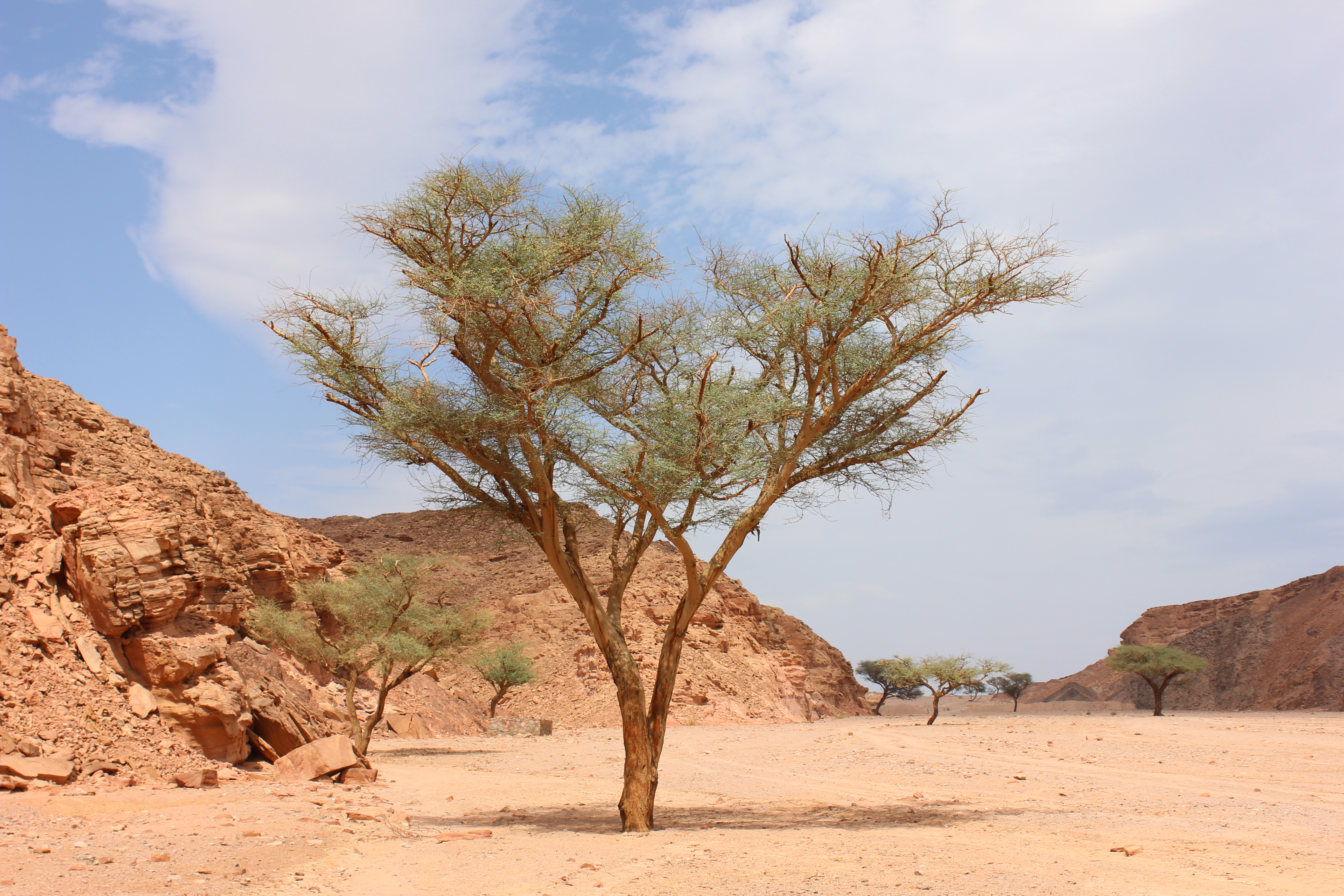 Acacia tree in Ein Khadra Desert Oasis, Nuweibaa, South Sinai, Egypt.